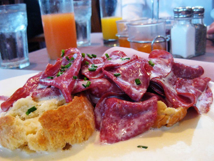 Cream chipped beef over biscuits with grapefruit juice